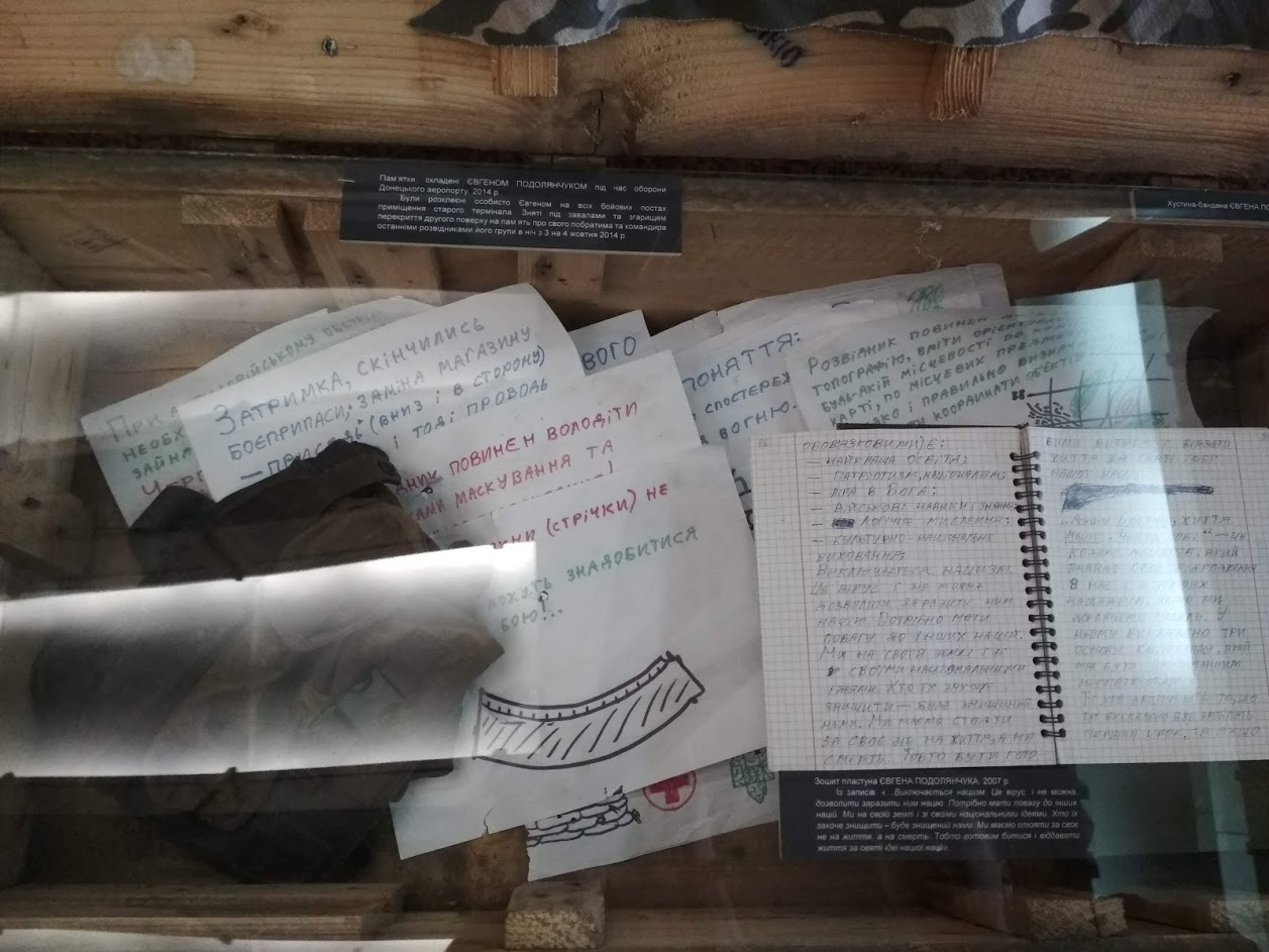 Evgen Podolyanchuk's educational tips that he placed in Donetsk Airport in spring 2014. WW2 museum in Kyiv